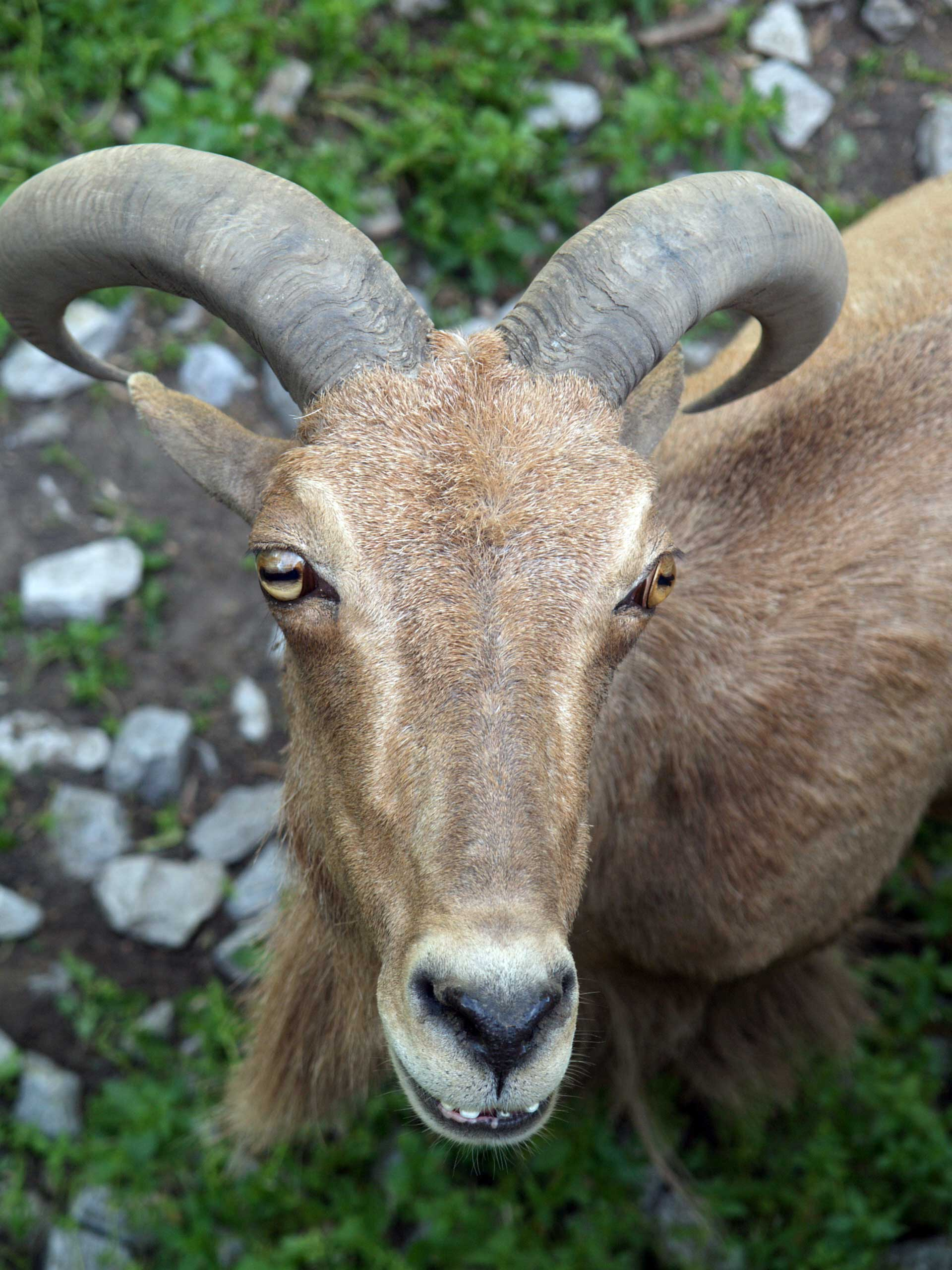 Barbary Sheep, Arui, Ammotragus lervia